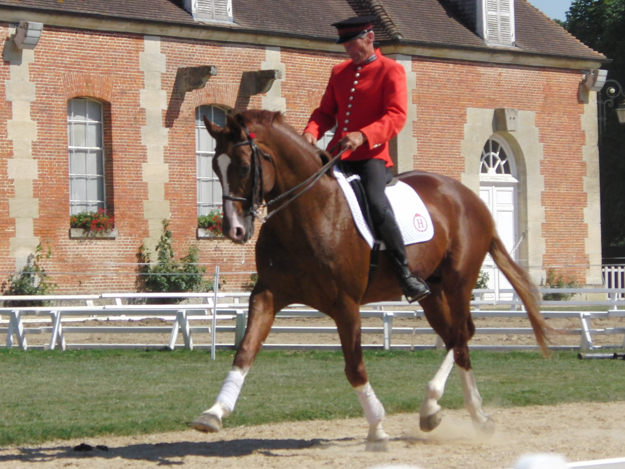 Belfort, hanoverian stallion born in 1993, showed during "Les Jeudis du Pin", Haras du Pin, Orne, France